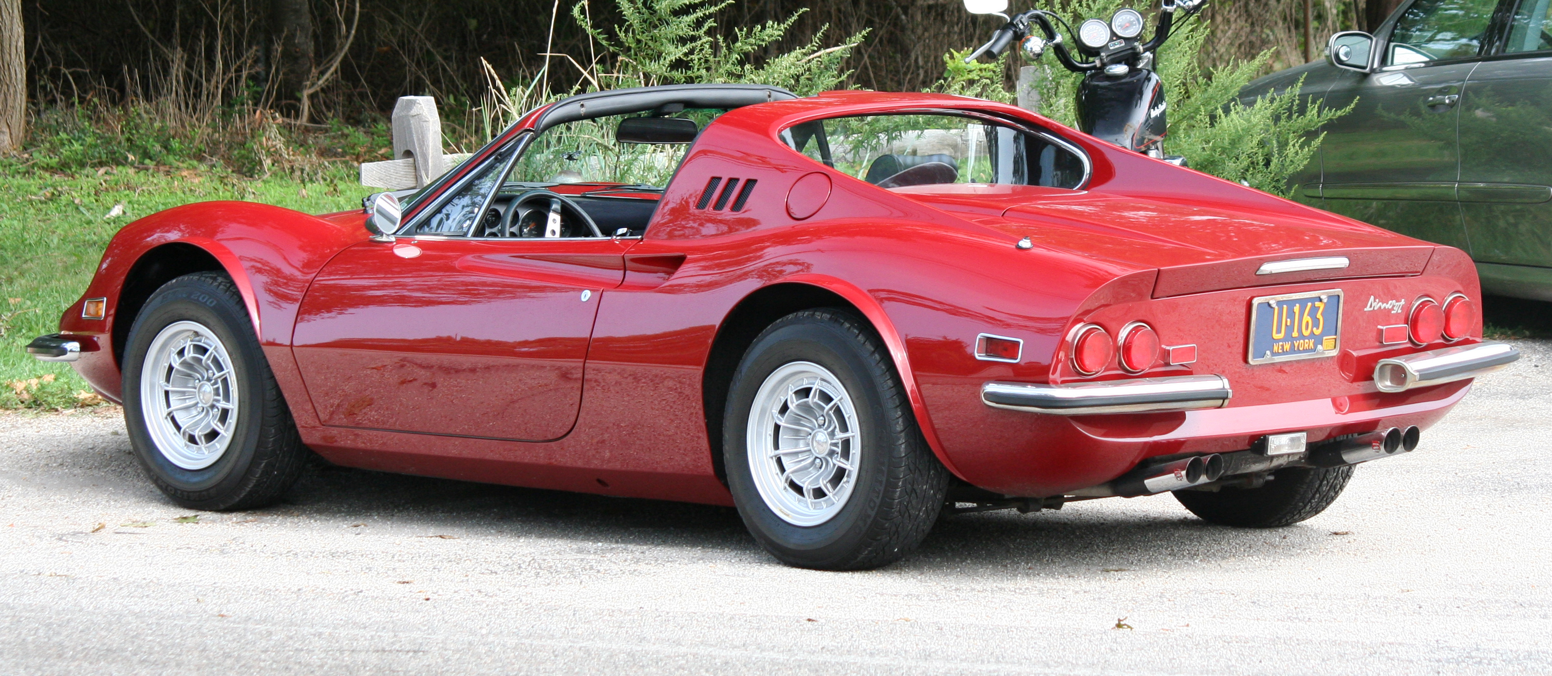 1973 Dino 246 GTS in Springs, NY. This US market car (different marker lights, four red taillights instead of amber outer lights) has the desirable "chairs and flares" package, consisting of the seats from the Daytona and flared fenders. It also has the 7.5" Campagnolo five-bolt alloys which were often ordered in conjunction with the flared wings. About 90 flared 246 GTS were built.